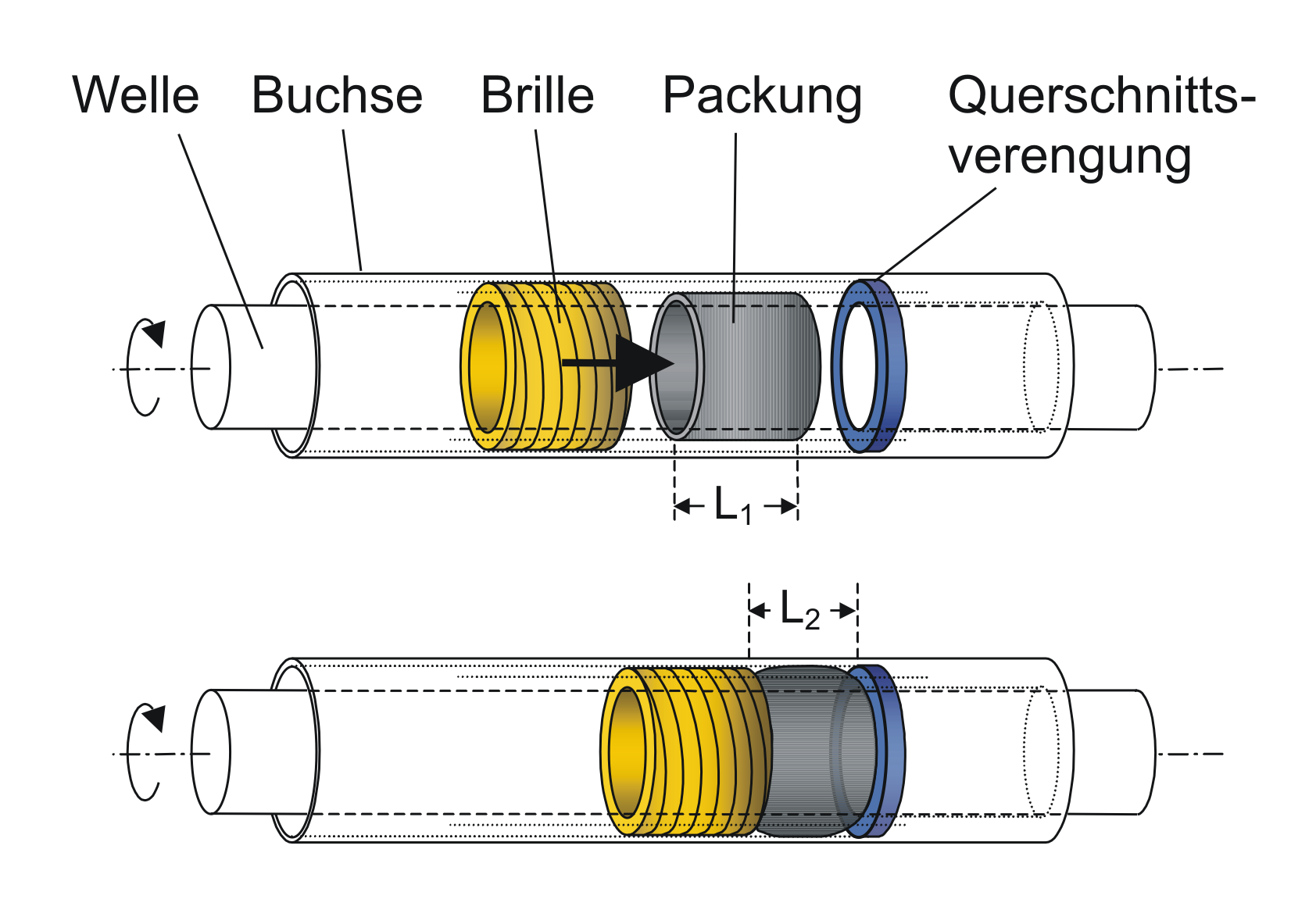 Drawing of a gland (engineering)